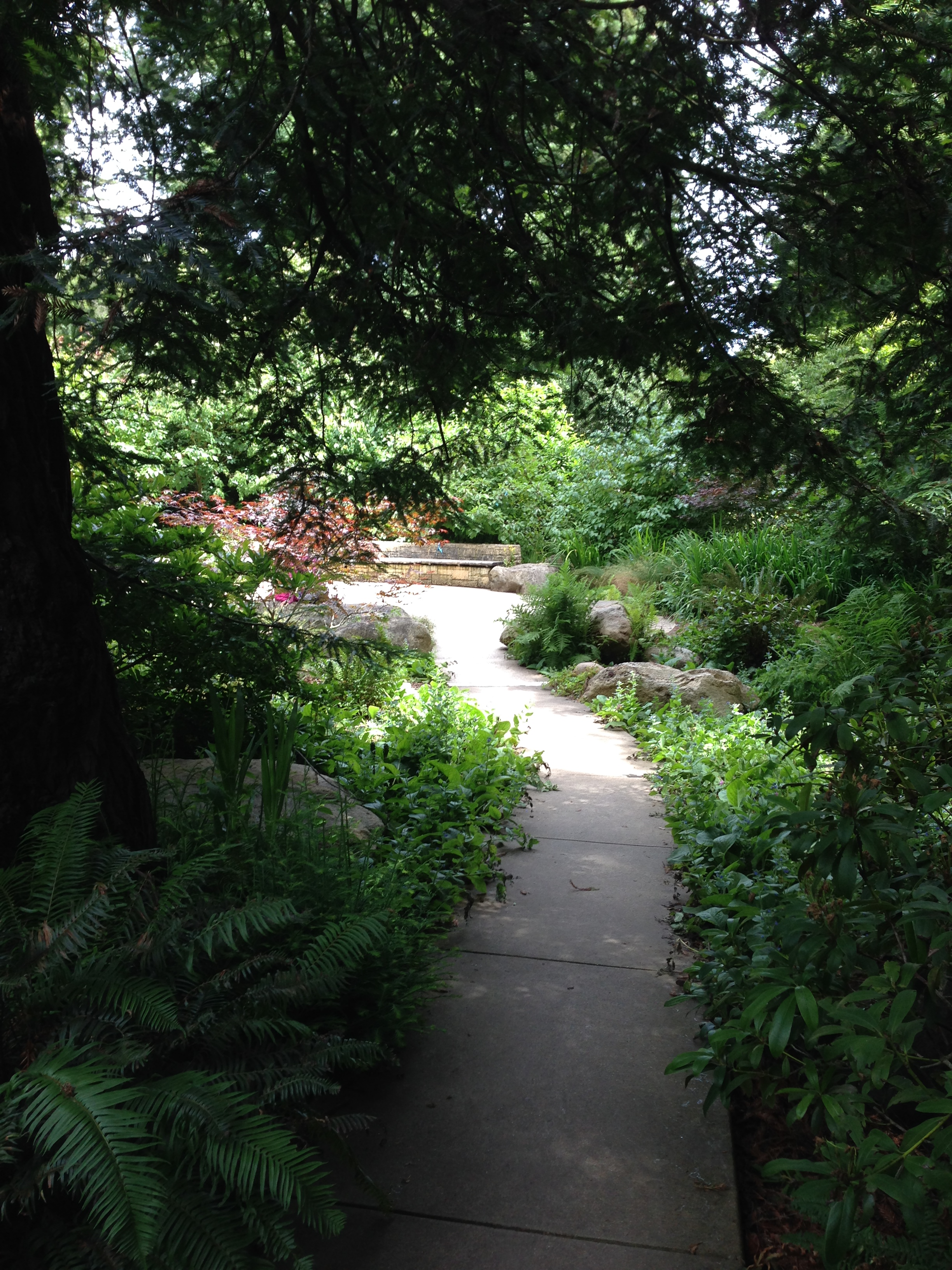 Golden Gate Park, San Francisco, California